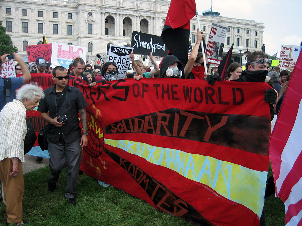 Protest march at the w:2008 Republican National Convention in Saint Paul, Minnesota